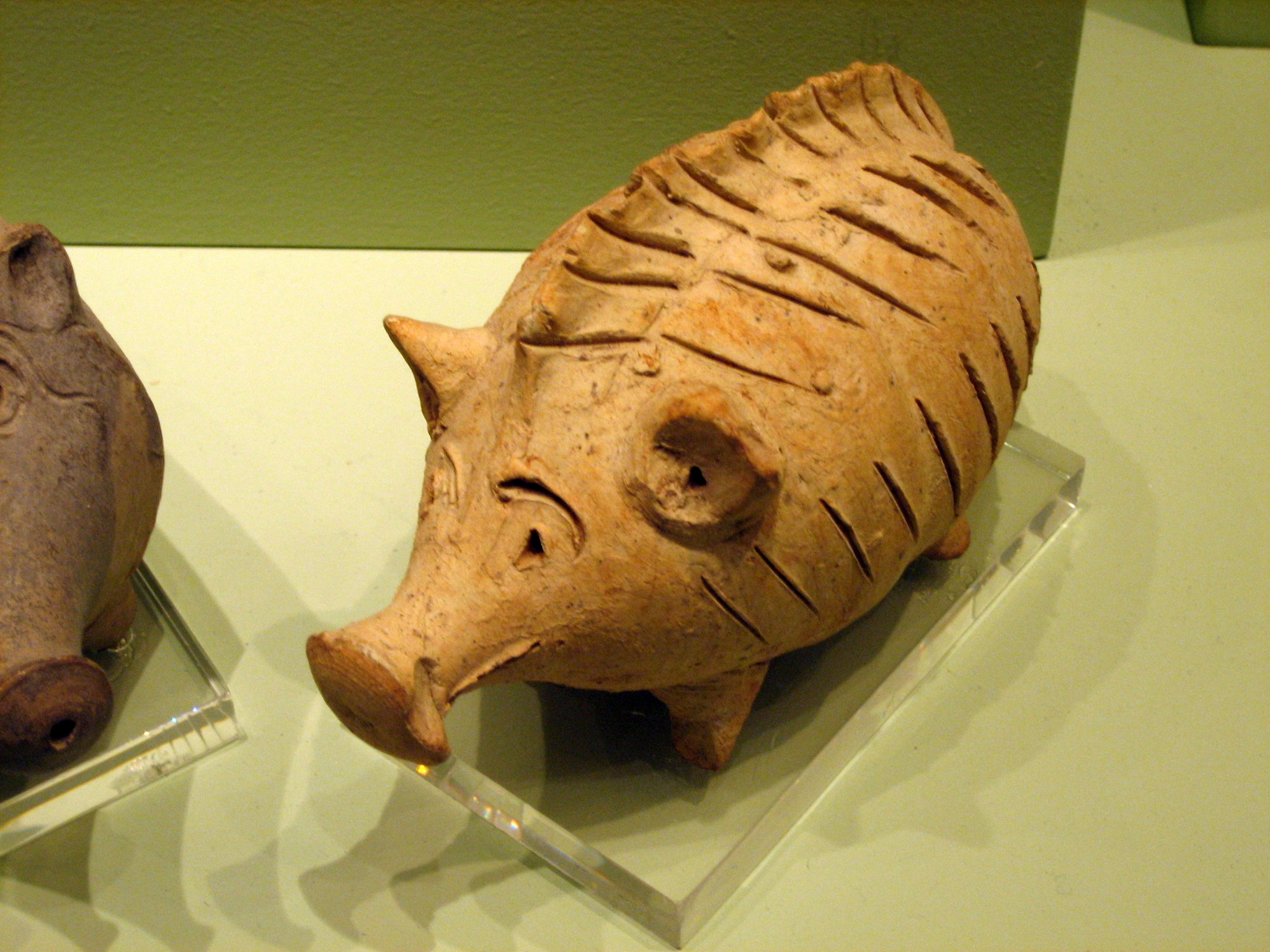 Rattle in the shape of animal, Cypro-Archaic II period(600-480BC)